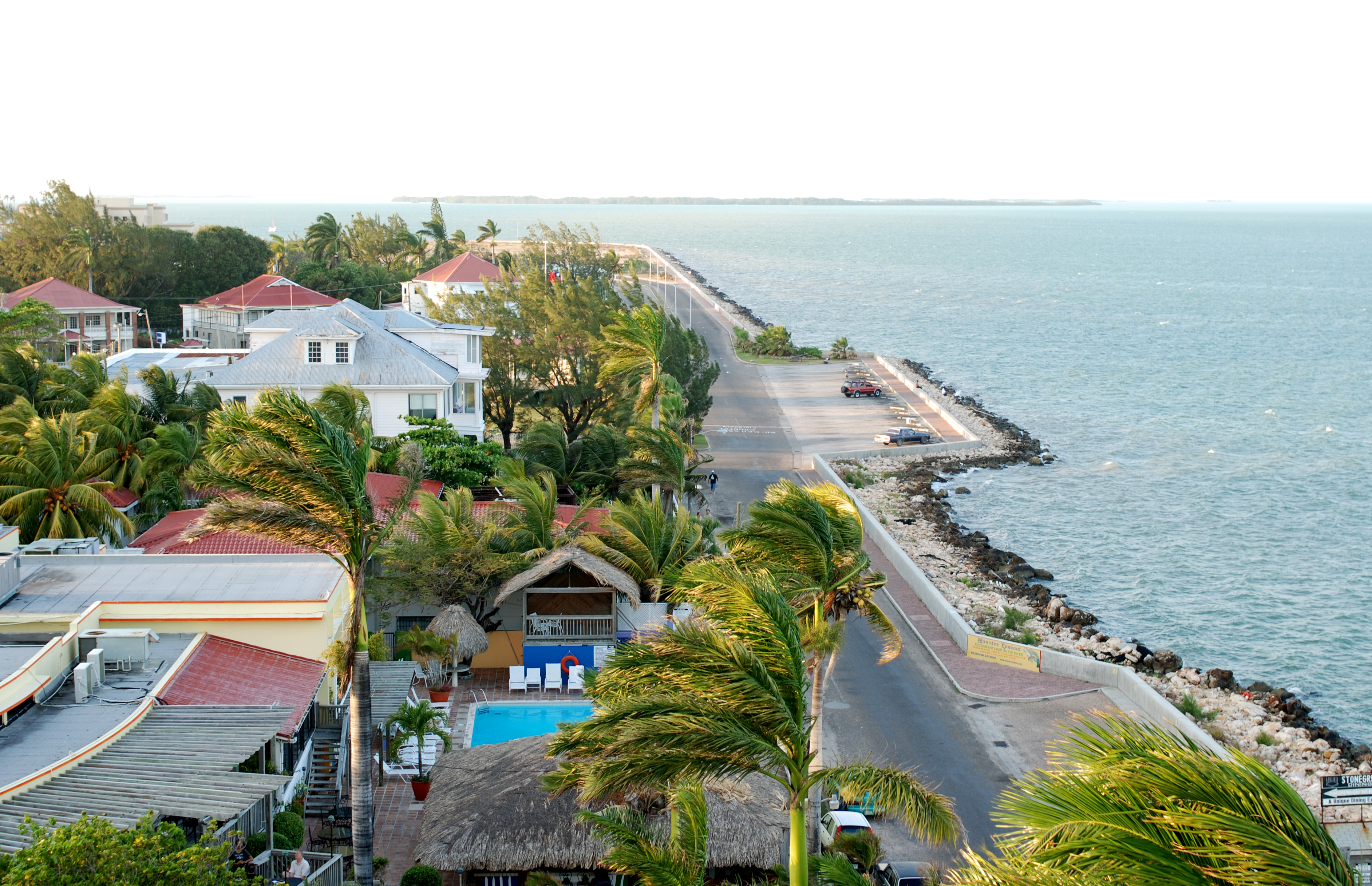 North Side of Belize City, Belize